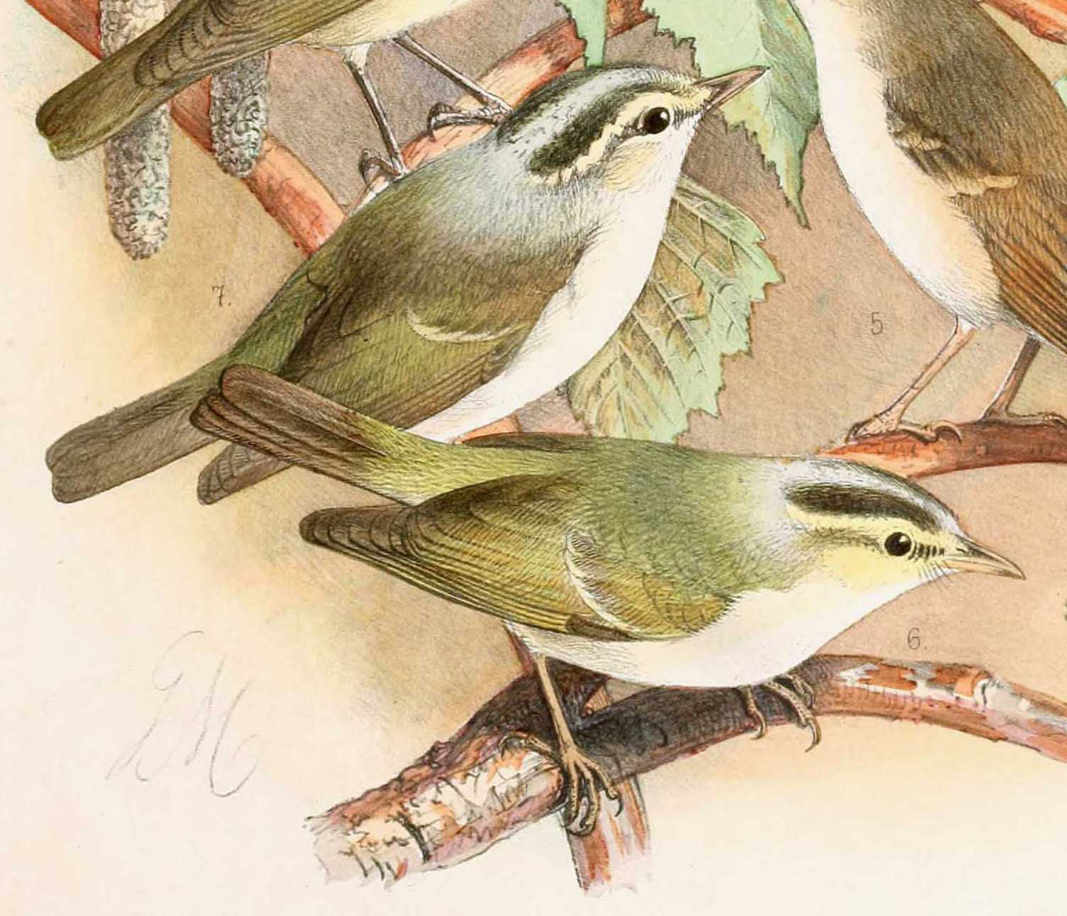 « Phylloscopus (Acanthopneuste) occipitalis » = Phylloscopus occipitalis (Western crowned warbler) - male and female